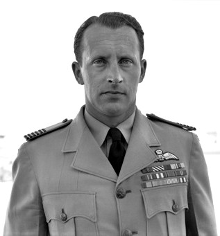 Malta. Portrait of Group Captain (Gp Capt) Brian A Eaton DSO and bar, DFC, Commanding Officer of 78 Fighter Wing RAAF. Gp Capt Eaton had a distinguished career as a fighter pilot, including participation in the North African campaign during the Second World War. The Wing was stationed in Malta for garrison duty between July 1952 and December 1954.